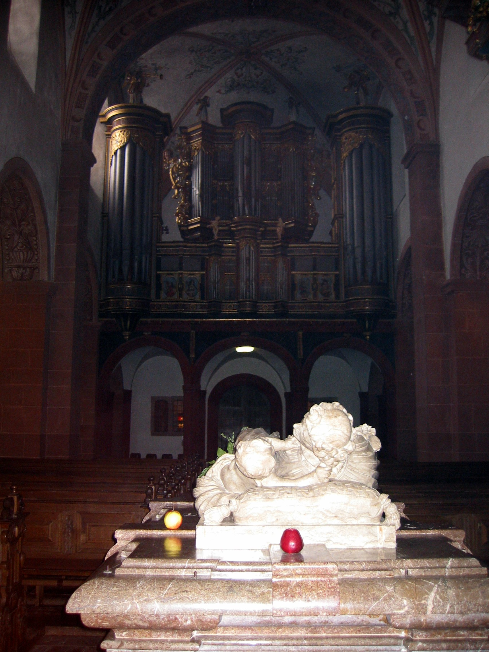 Cloister/monastary/Convent Steinfeld in Germany.